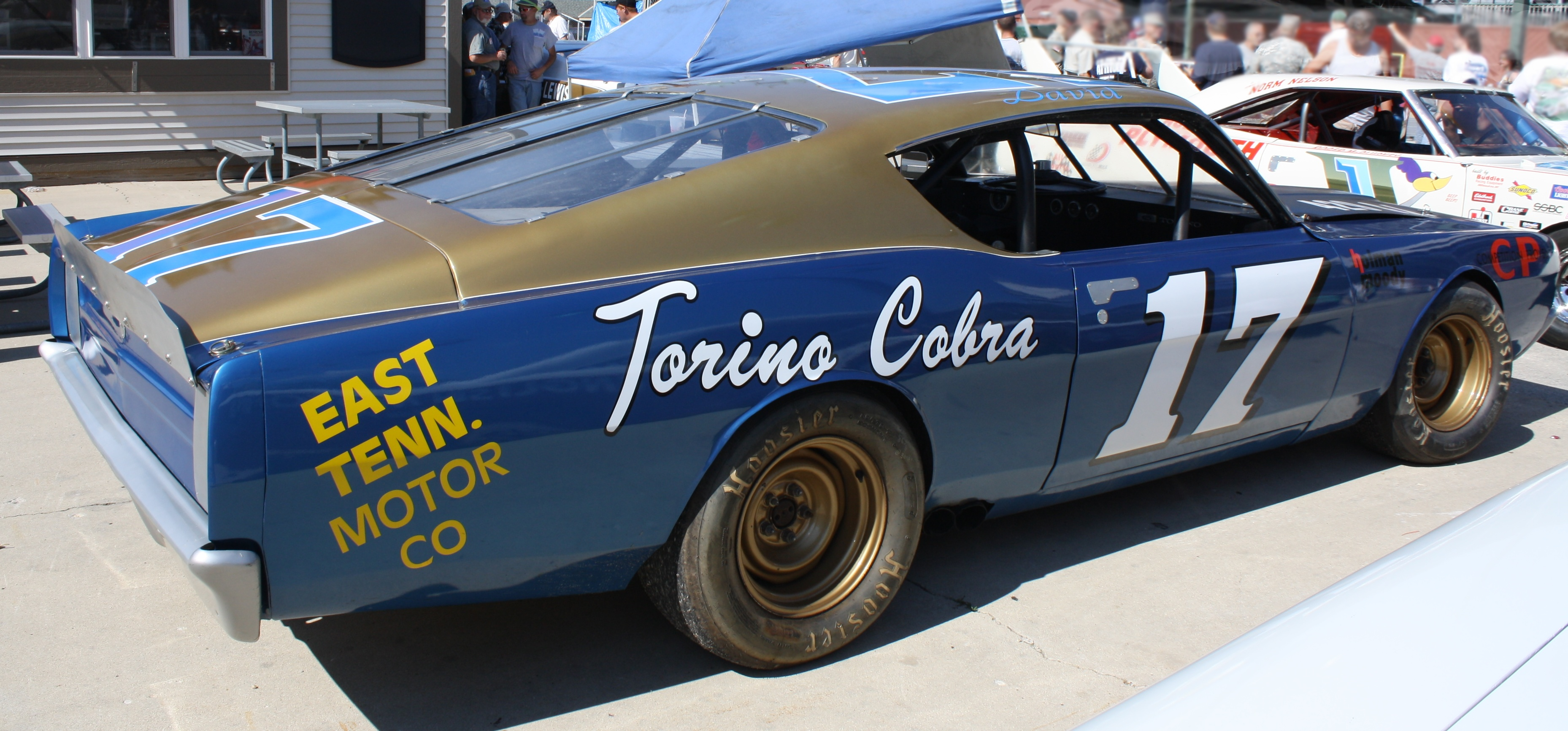 A replica or possible an original Torino Cobra owned by Holman Moody and driven by David Pearson.